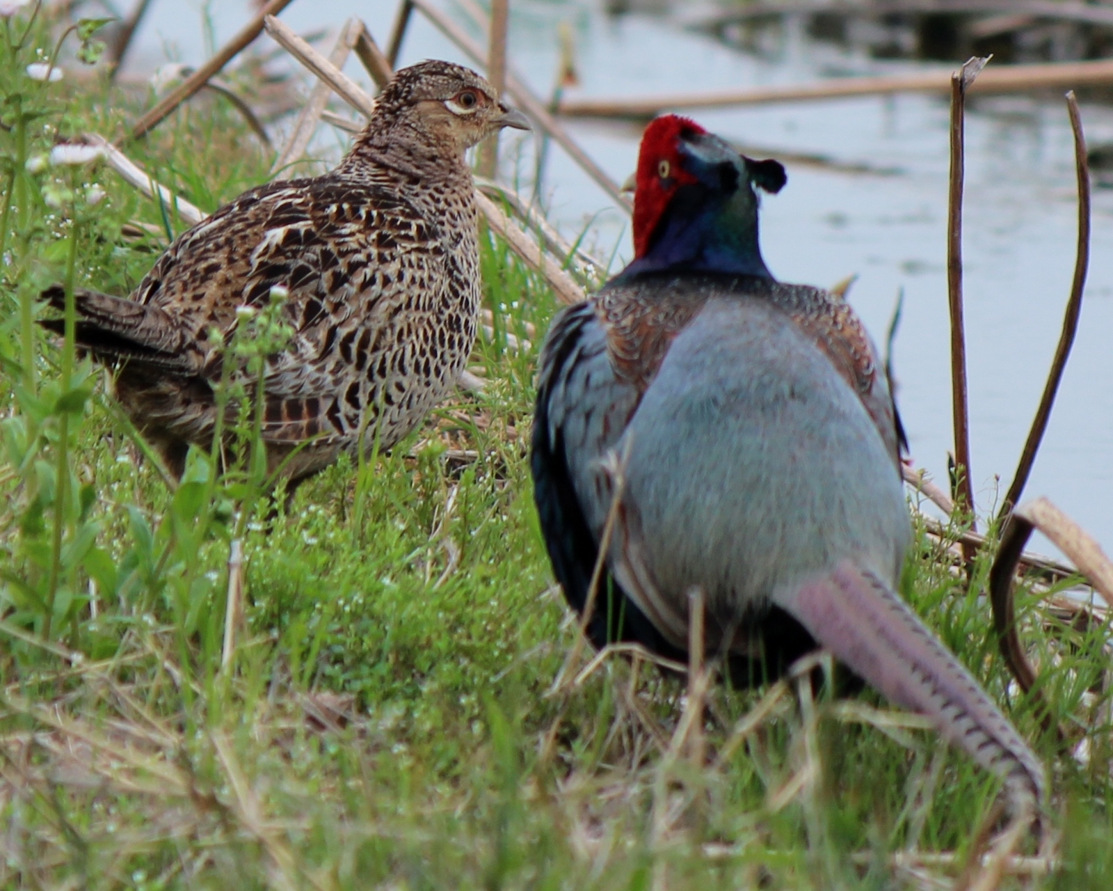 Phasianus versicolor (Green Pheasant, Phasianus colchicus versicolor), couple in Japan.